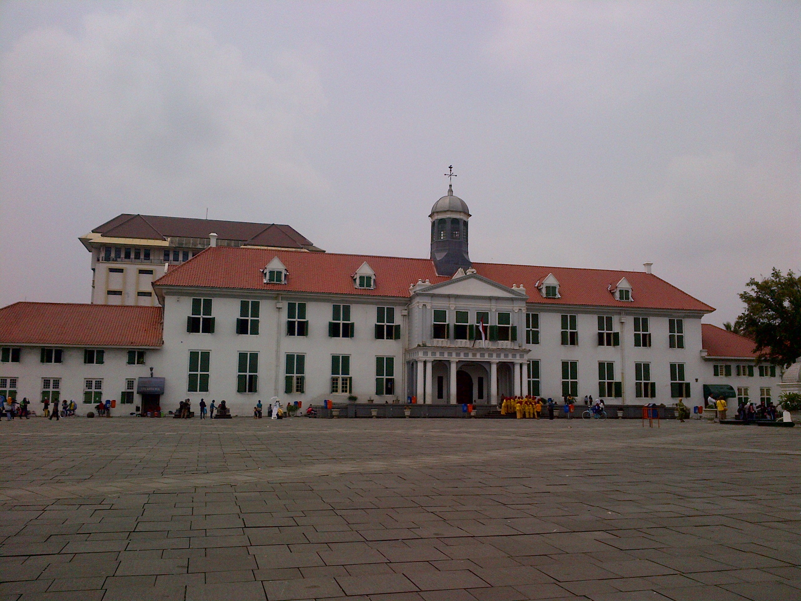 Former Town Hall of Jakarta